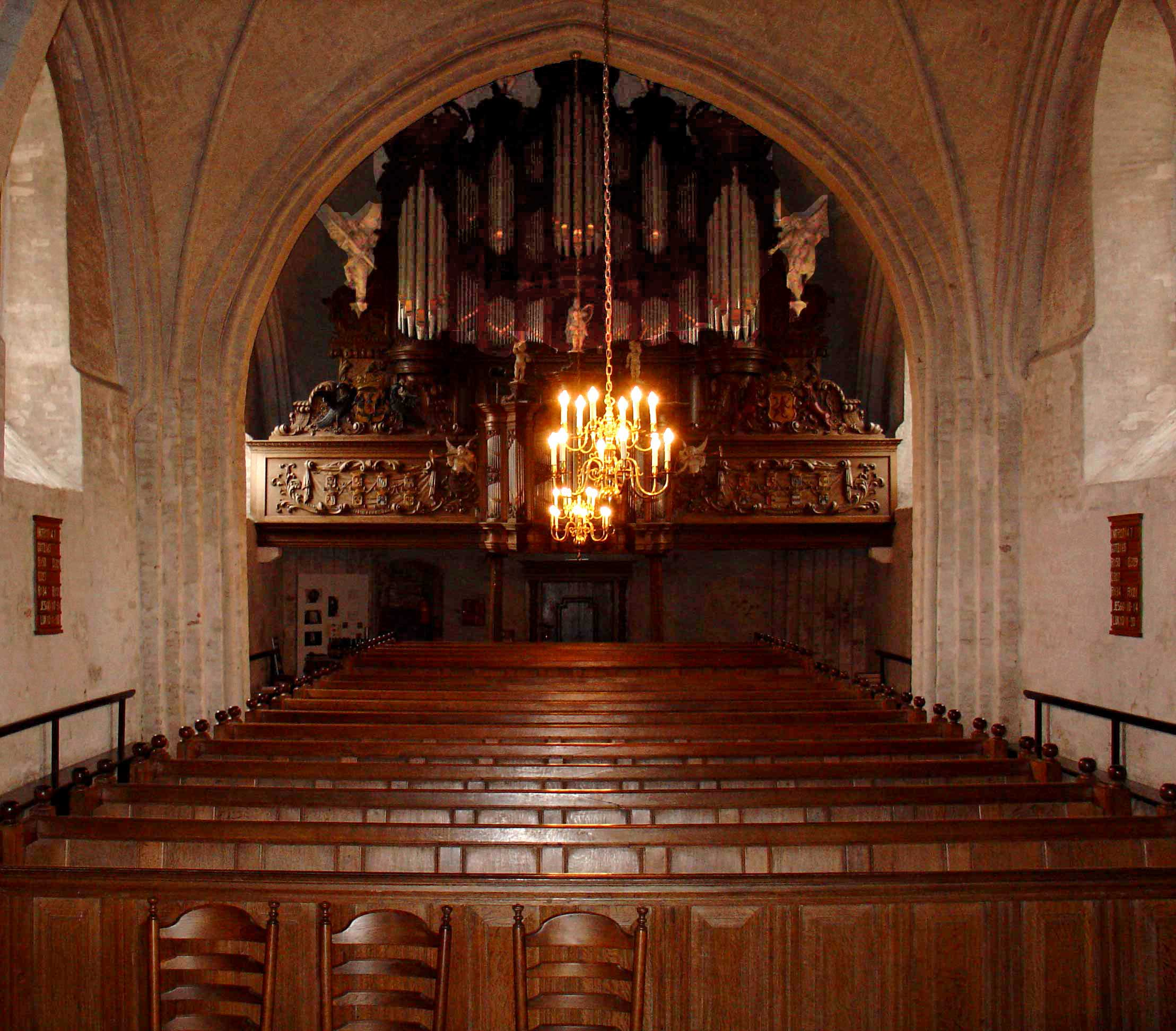 Church of Leens